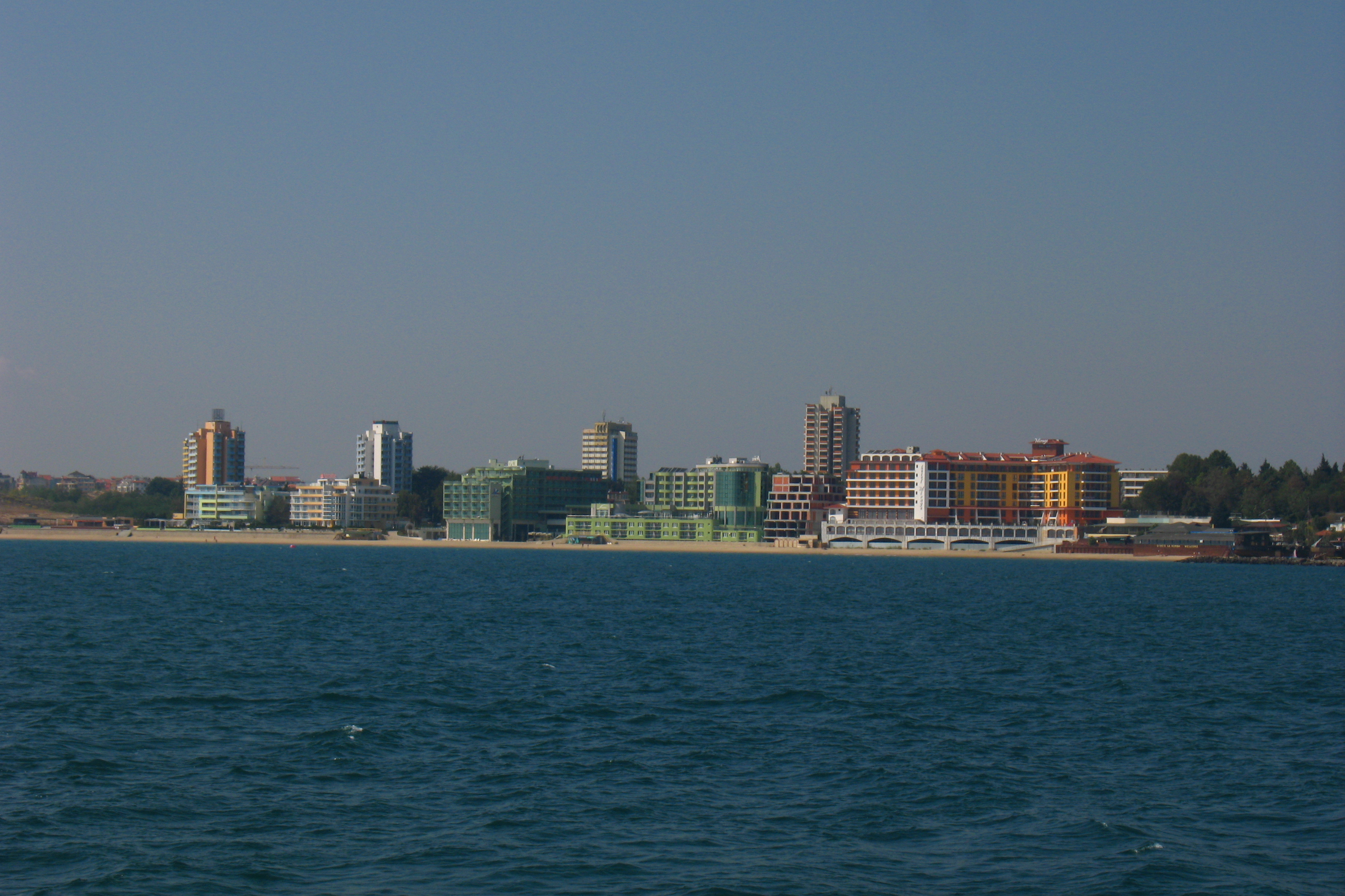 New development, Southside, Nessebar, New Town Like tiny Sunny Beach, Northside